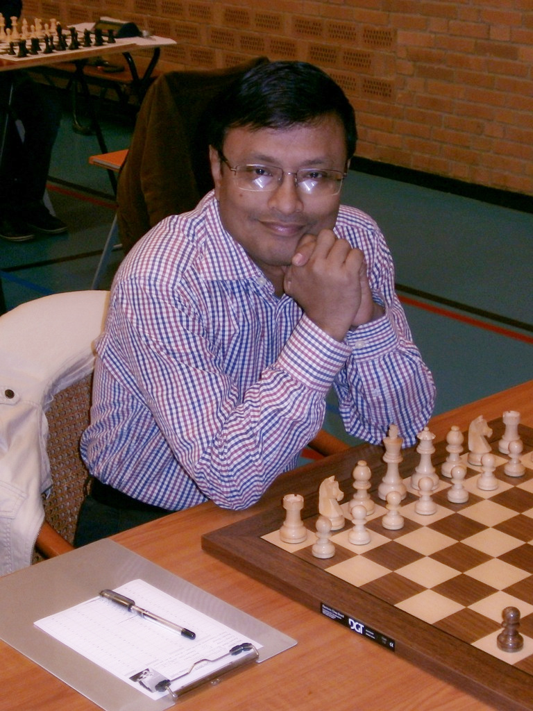 GM Dibyendu Barua playing in the Groningen Chess Festival 2012 in Groningen (the Netherlands)